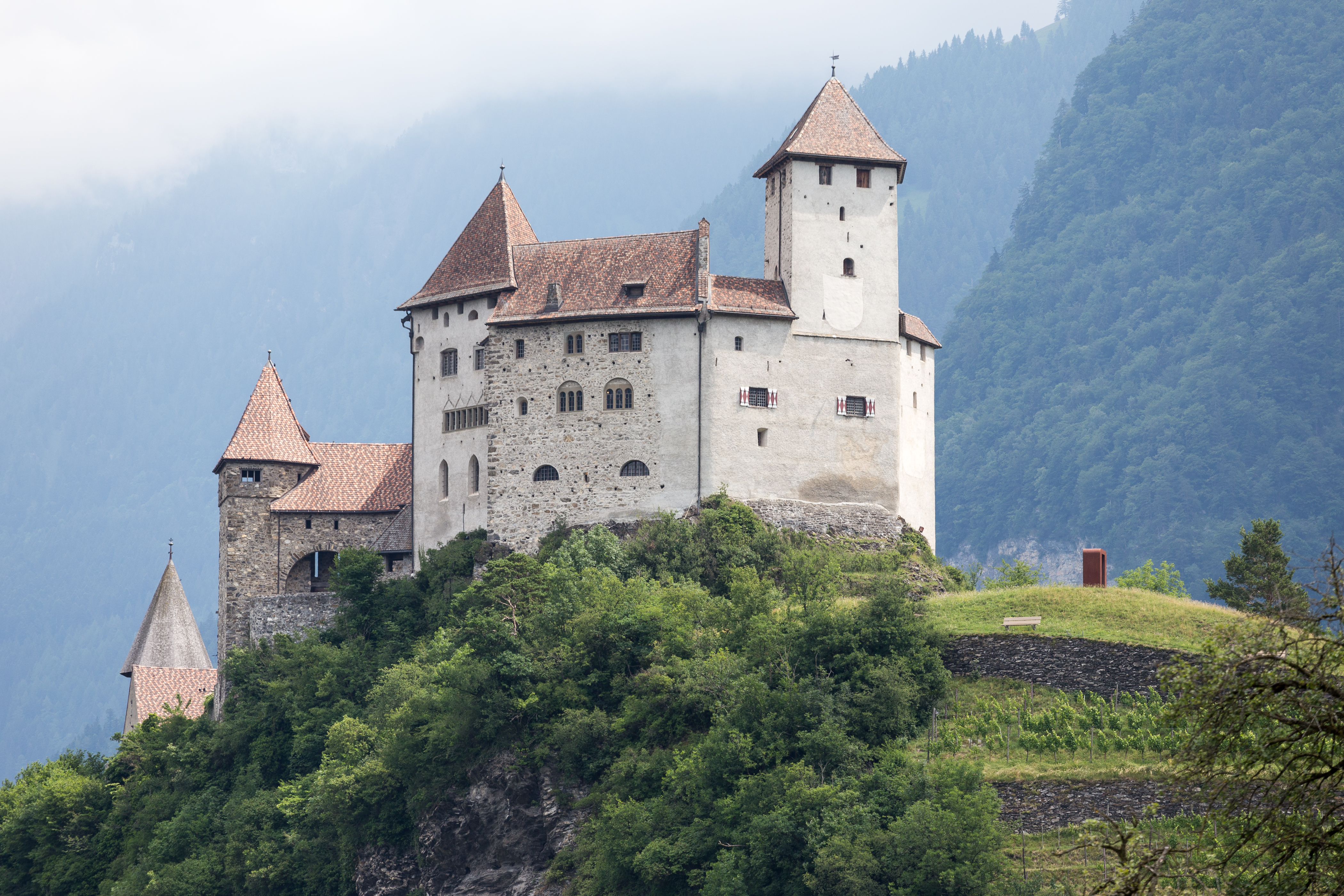 Gutenberg castle in Balzers, Liechtenstein